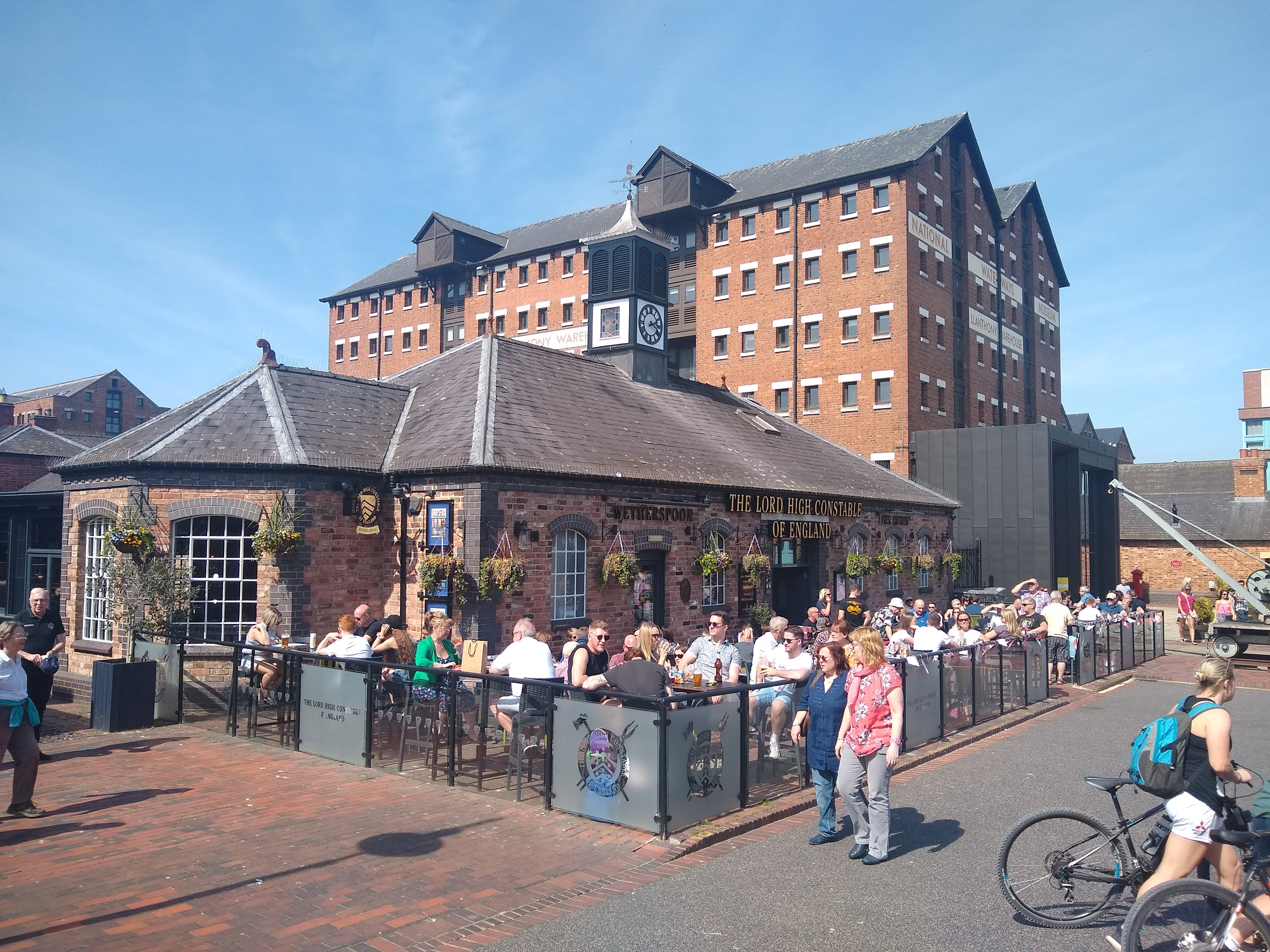 Gloucester